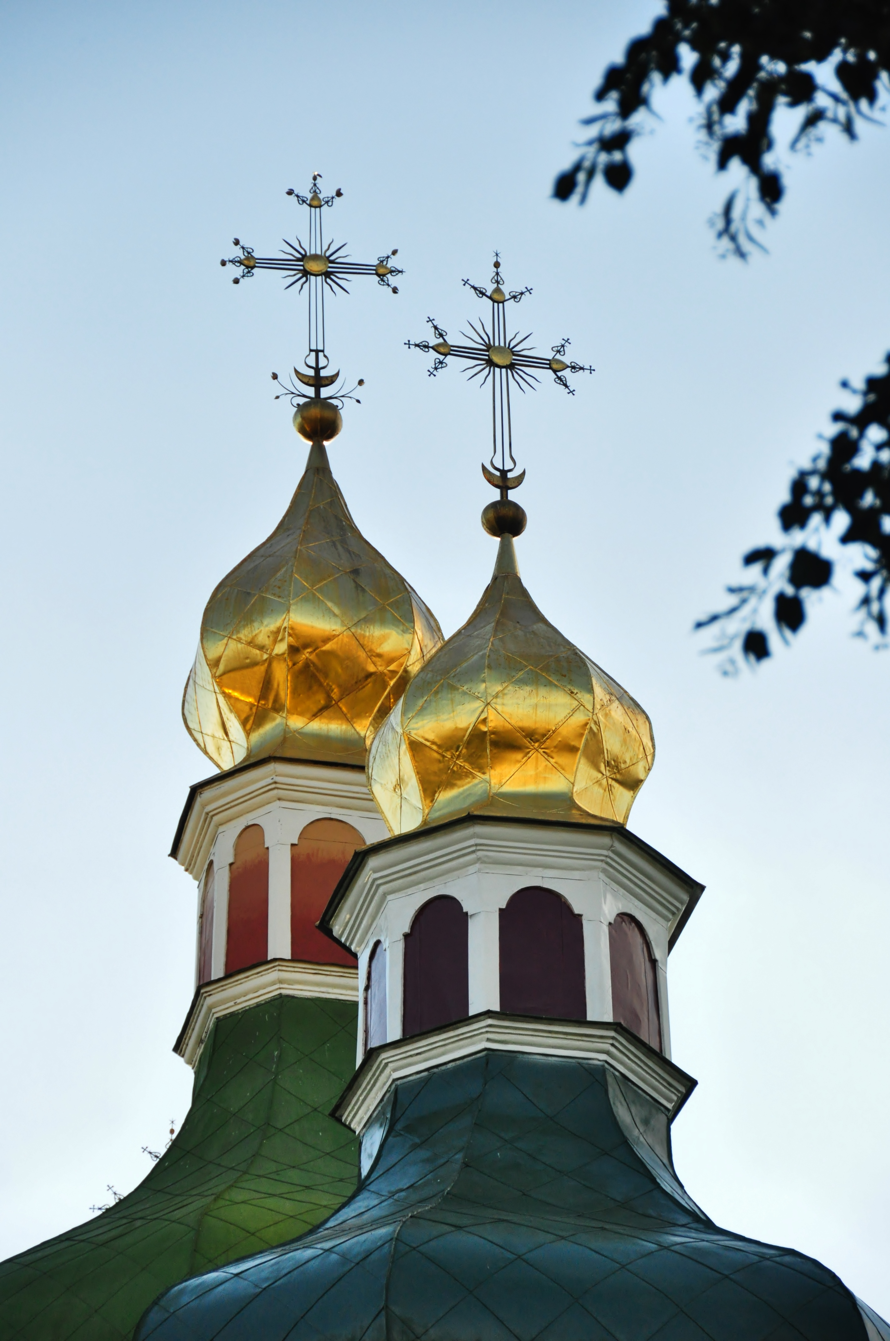 St Nicholas Cathedral in Nizhyn. Onion dome